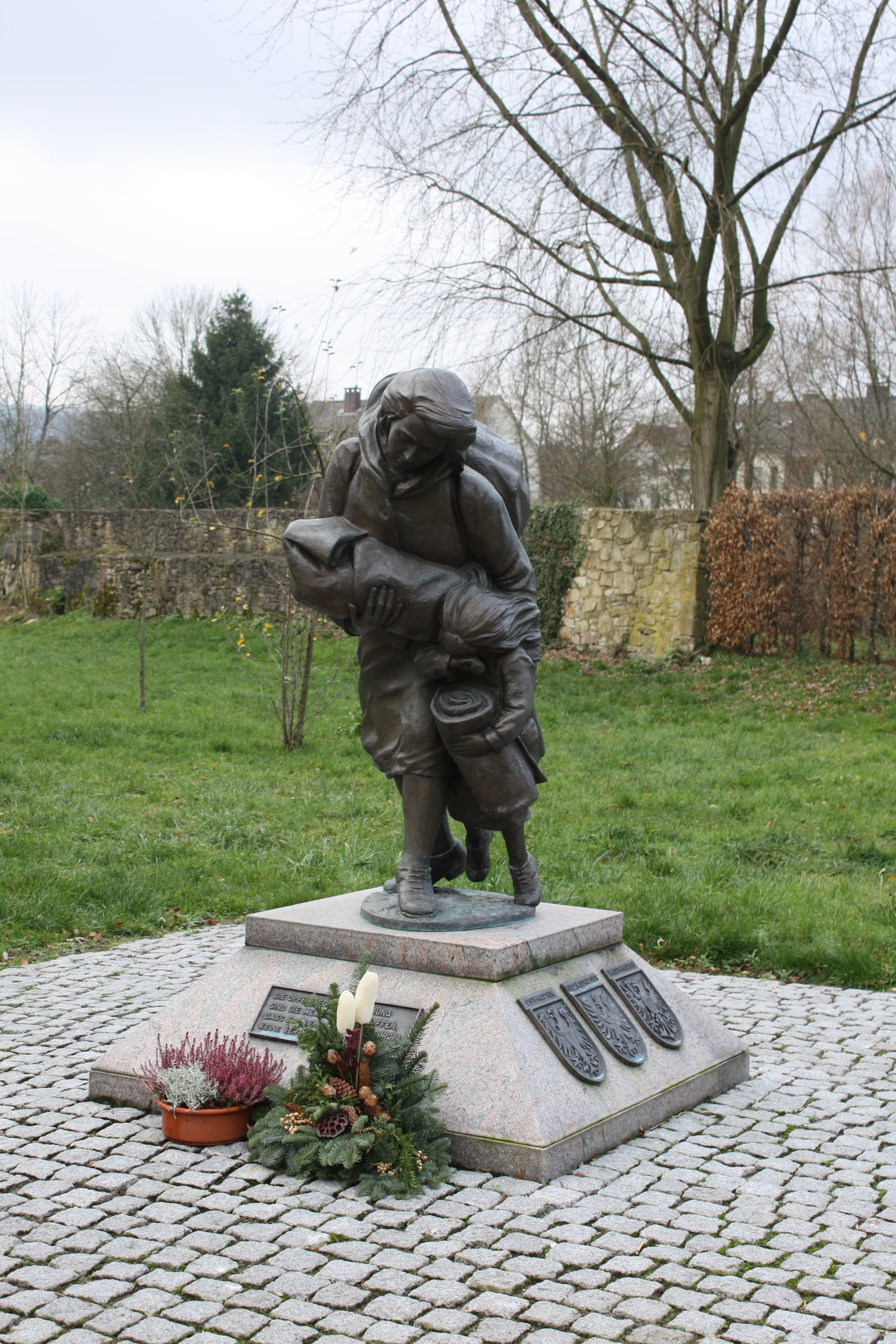 Memorial in front of Burg Horn: Mother with two children on the flight. To remember people on flight and driven out of their home countries: Pommerania, Silesia, East Prussia etc. at the end of World war II. Reminder for a unified Europe.